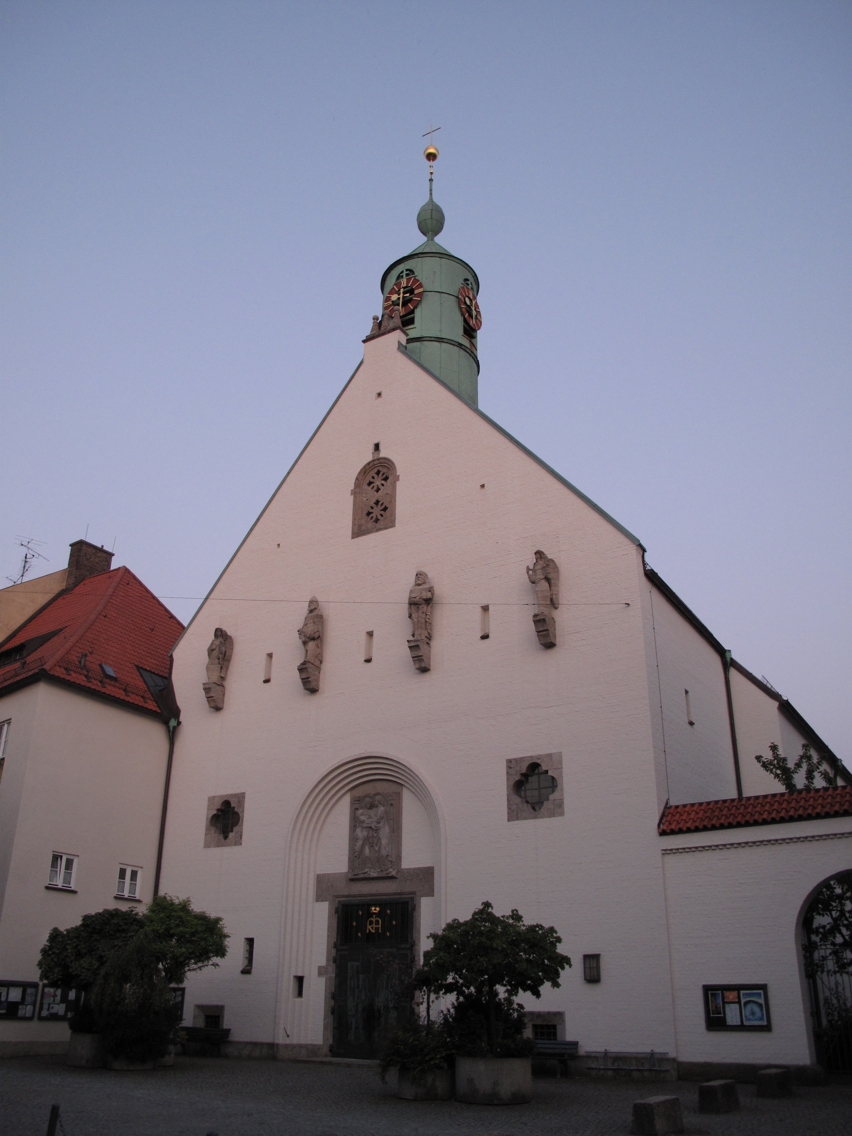 The catholic church Mariä Heimsuchung in Munich, district Schwanthalerhöhe (Westend).